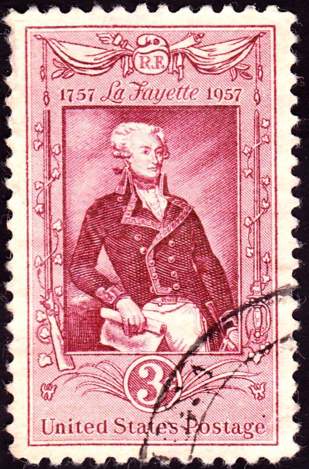 Image of Lafayette stamp, 1957 Issue